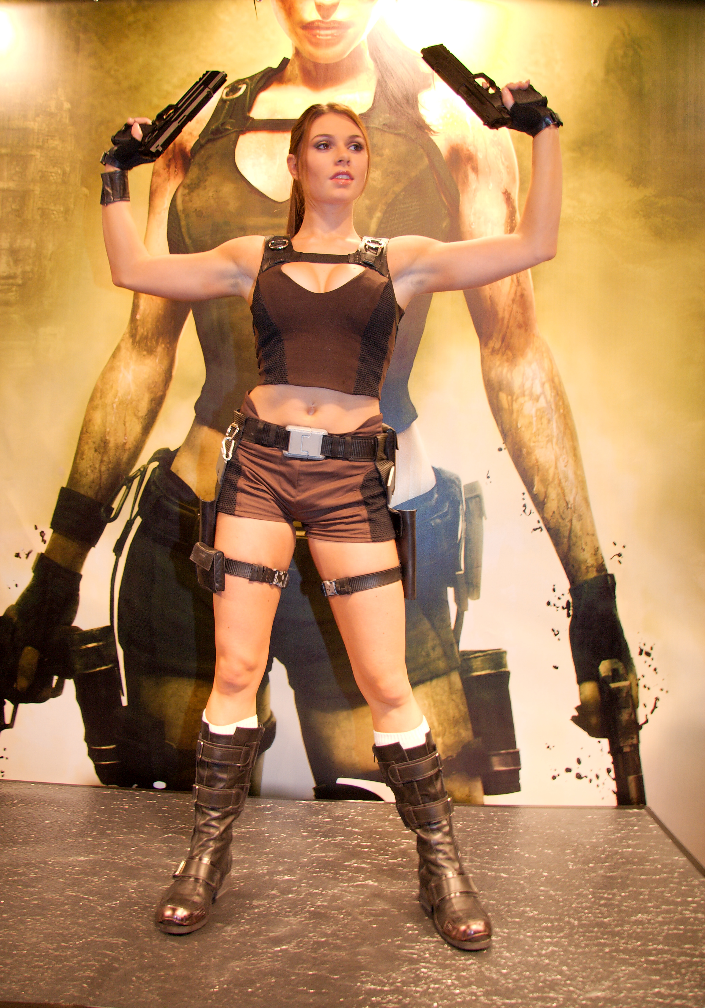 Alison Carroll, the official Lara Croft model for Tomb Raider: Underworld at Festival du jeu vidéo 2008 (Paris, France).